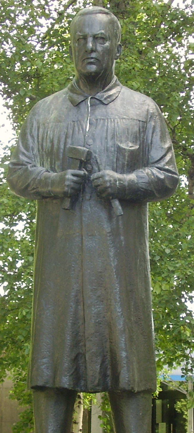 A statue of the Norwegian sculptor Gustav Vigeland. Located in Vigeland Park, Oslo